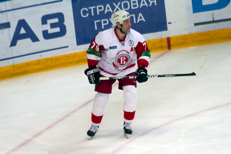 Vityaz Chekhov defenceman Alexei Troschinsky during the KHL-game against Amur Khabarovsk on October 14, 2011